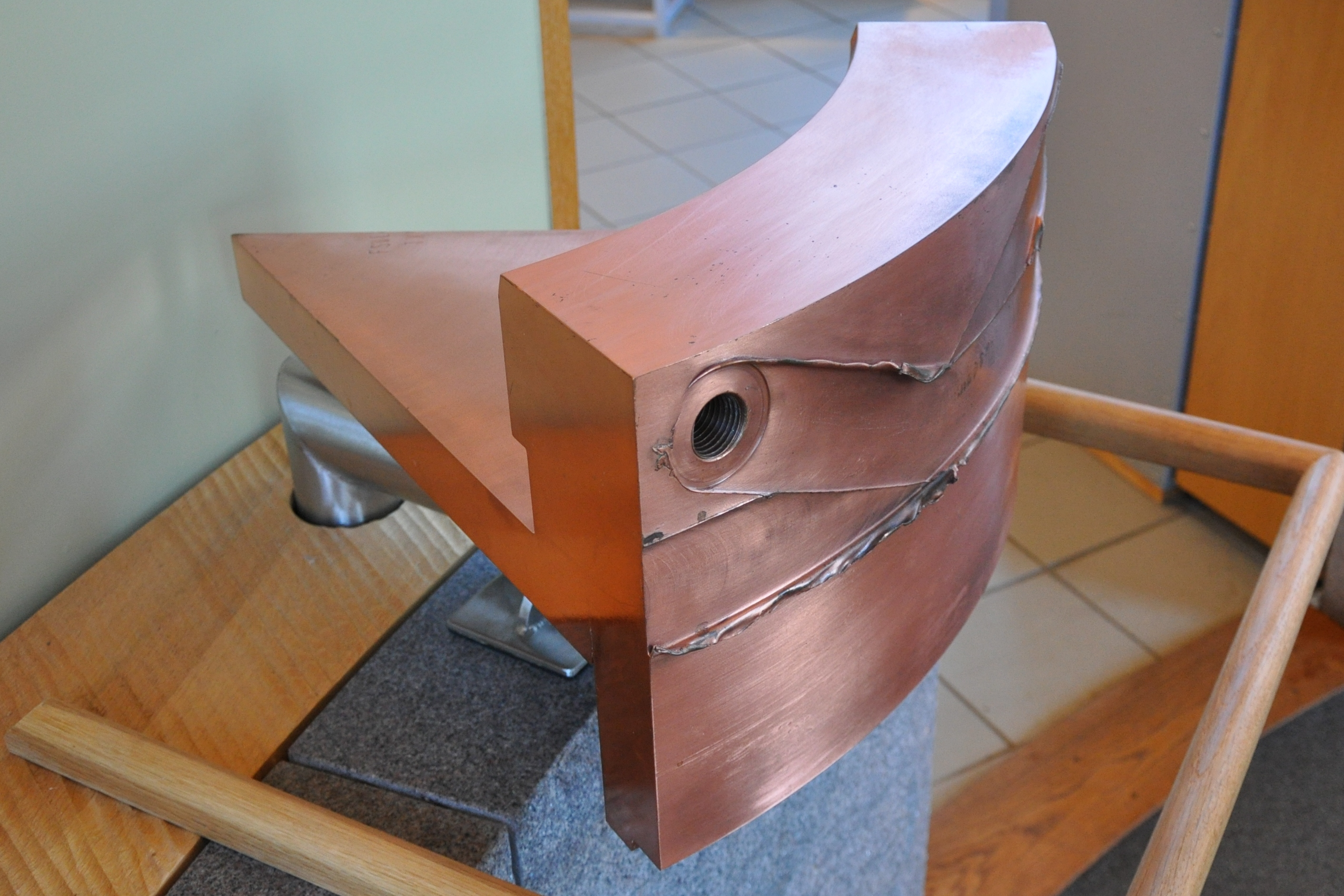 Demonstration of friction stir welding of copper canister at Äspö Hard Rock Laboratory, Sweden